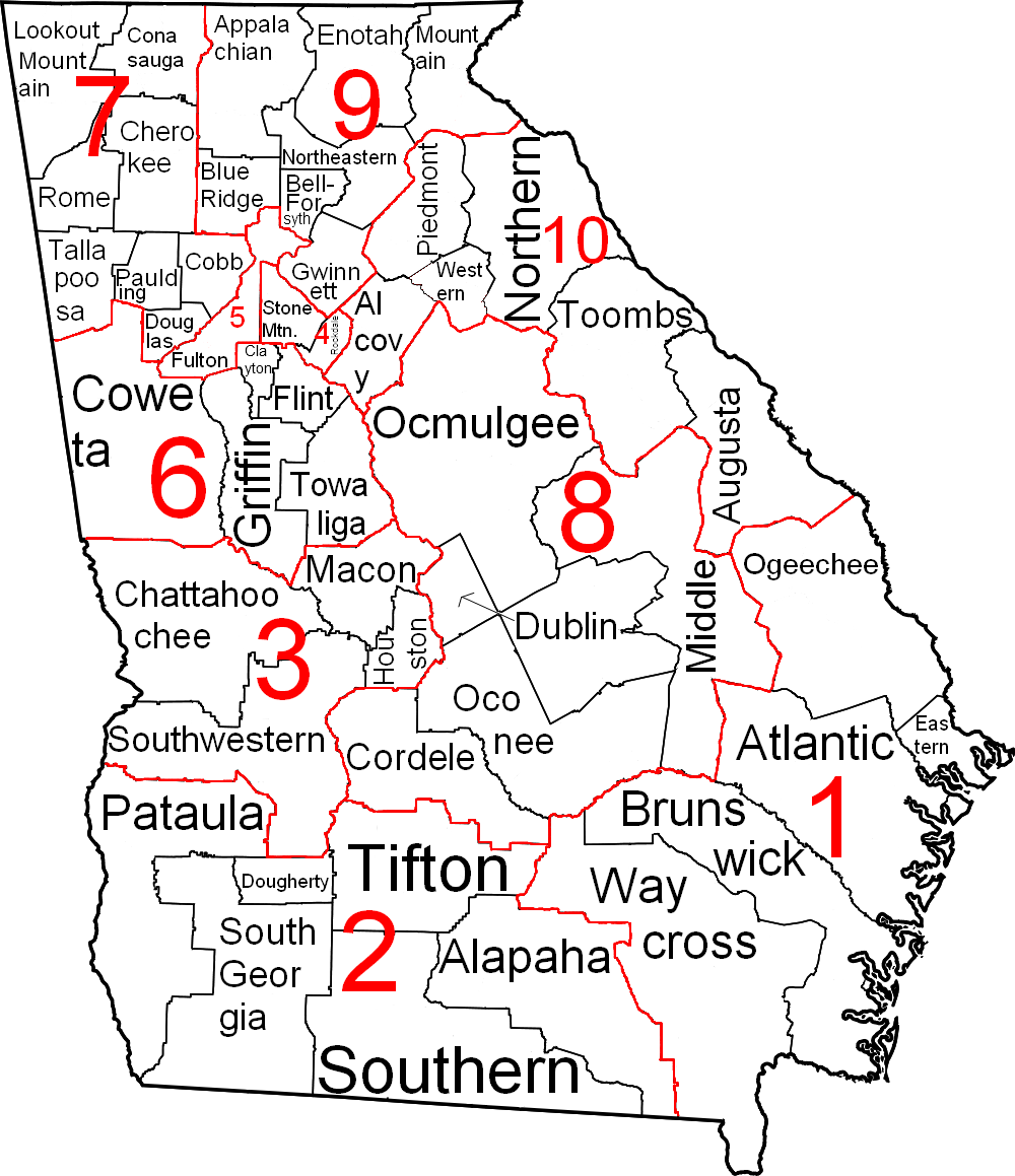 This is a map of Georgia showing the judicial districts and circuits. Legend: Judicial District boundary 1 Judicial District number Judicial Circuit boundary Toombs Judicial Circuit name